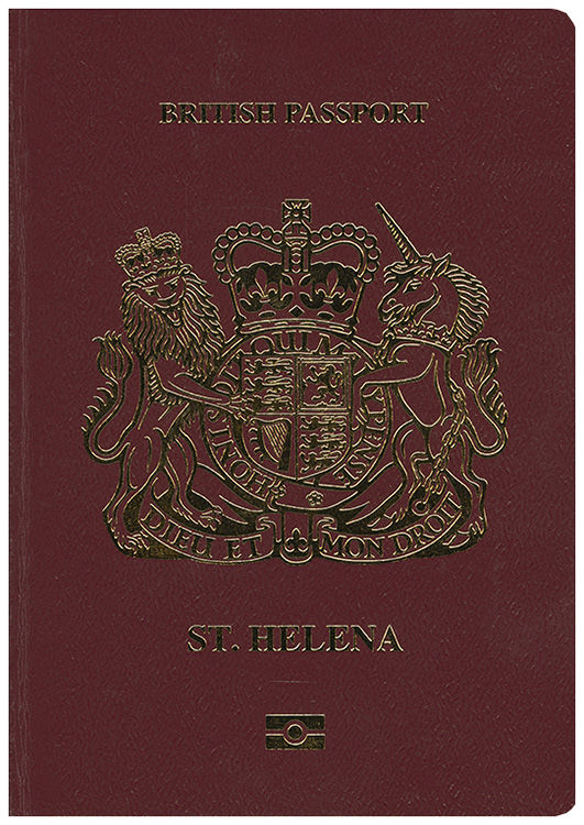 British passport (St Helena)